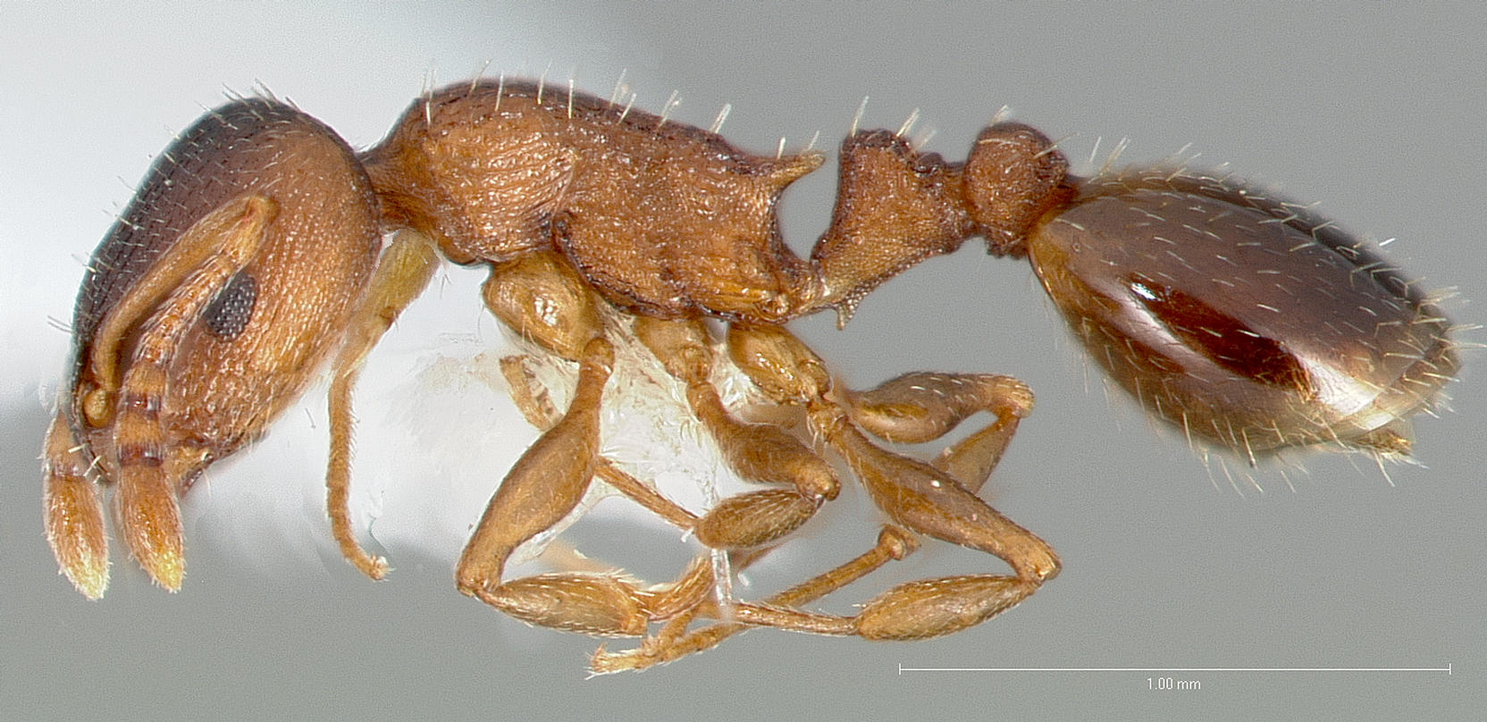 Profile view of ant Temnothorax rugatulus specimen casent0005690.